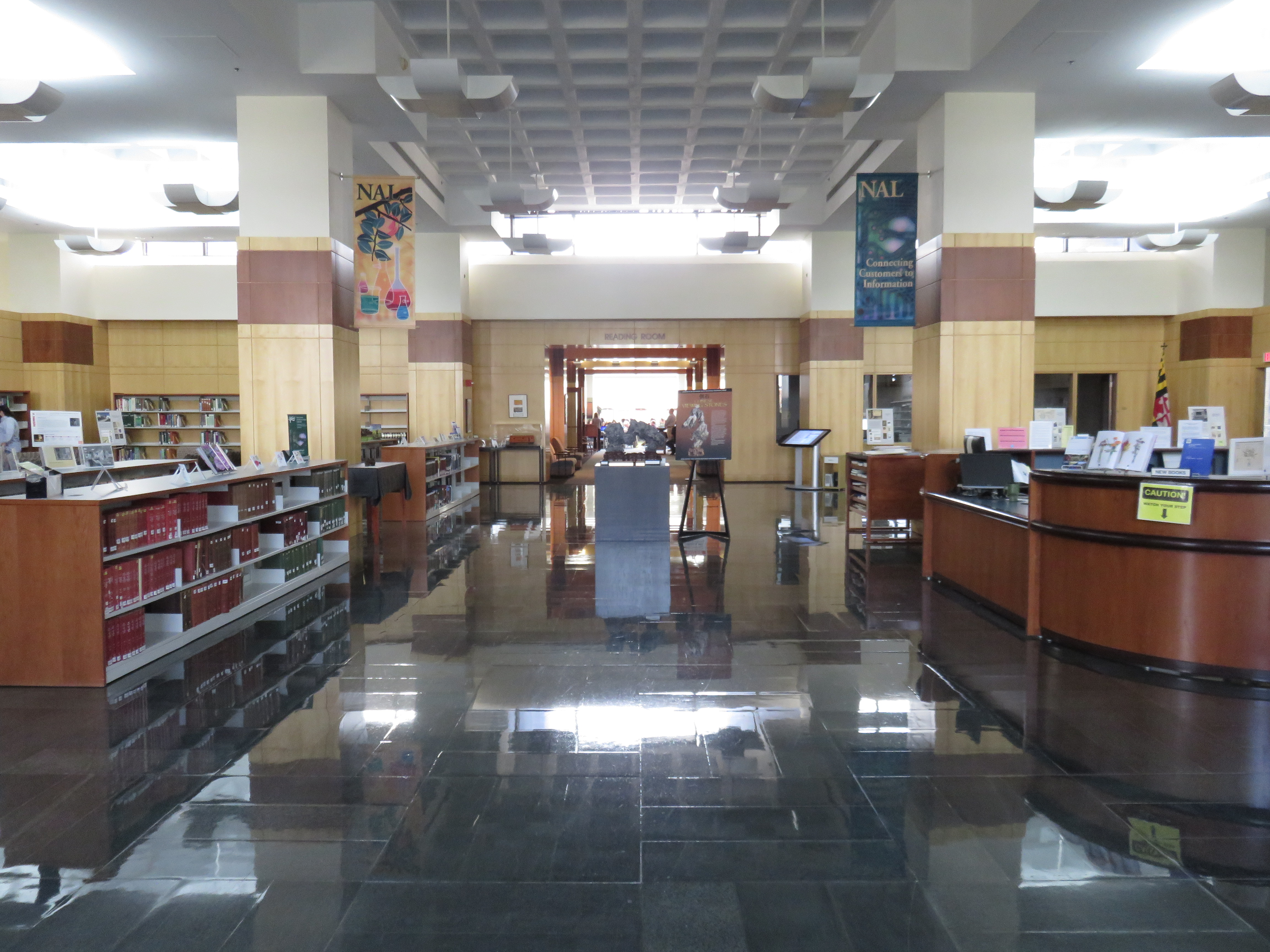 Lobby of the United States National Agricultural Library in 2018